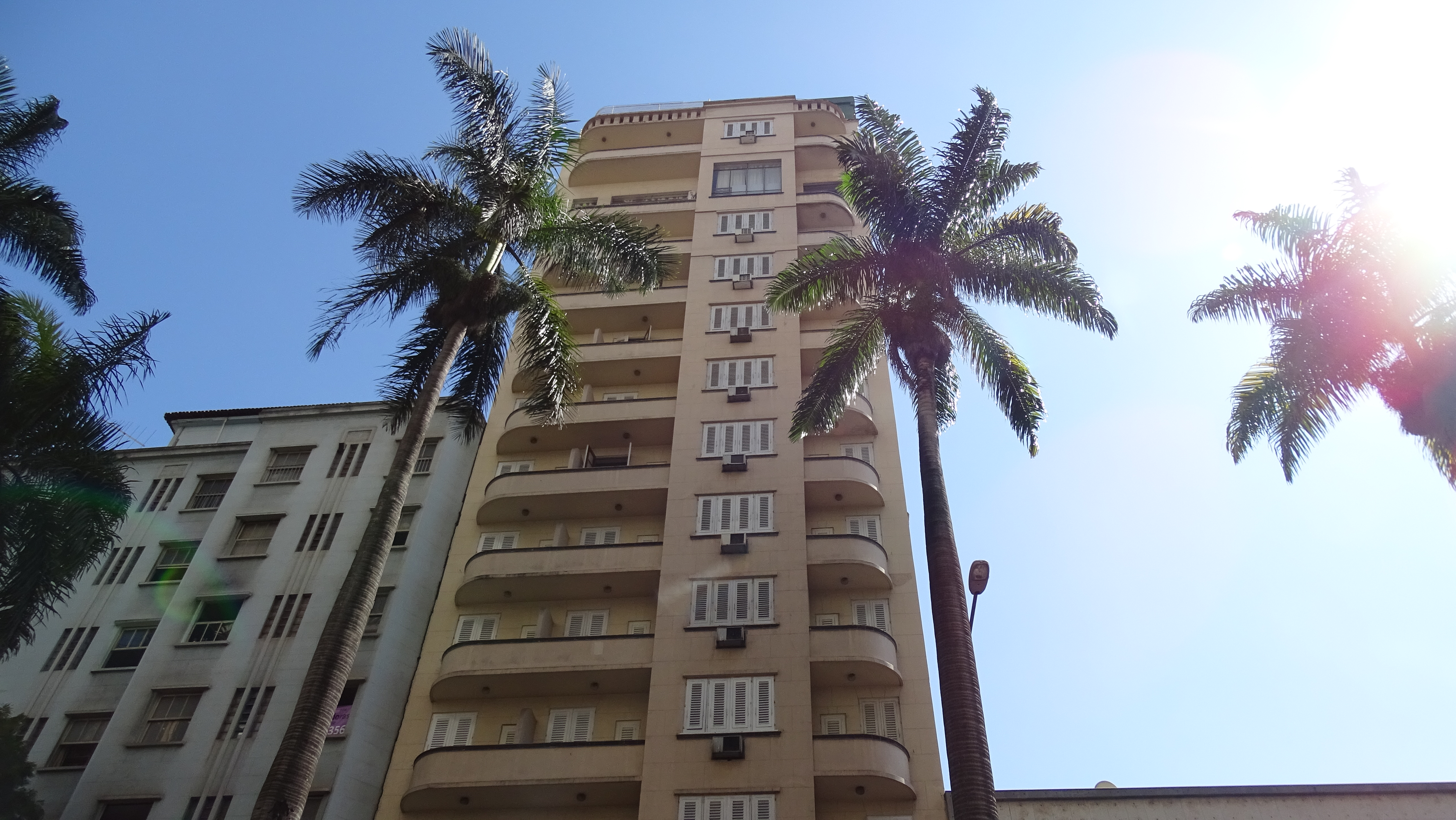 Front view of the traditional Amazonas Palace Hotel, heritage listed in the city of Belo Horizonte.